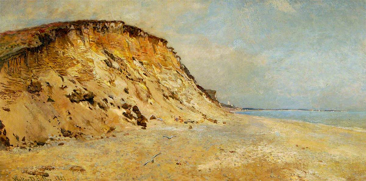 Minsmere Cliff, Dunwich, Suffolk. 1897. Oil on canvas. 60.8 cm H x 122.5 cm W. Colchester and Ipswich Museums Service: Ipswich Borough Council Collection. Gift from F.T. Cobbold.